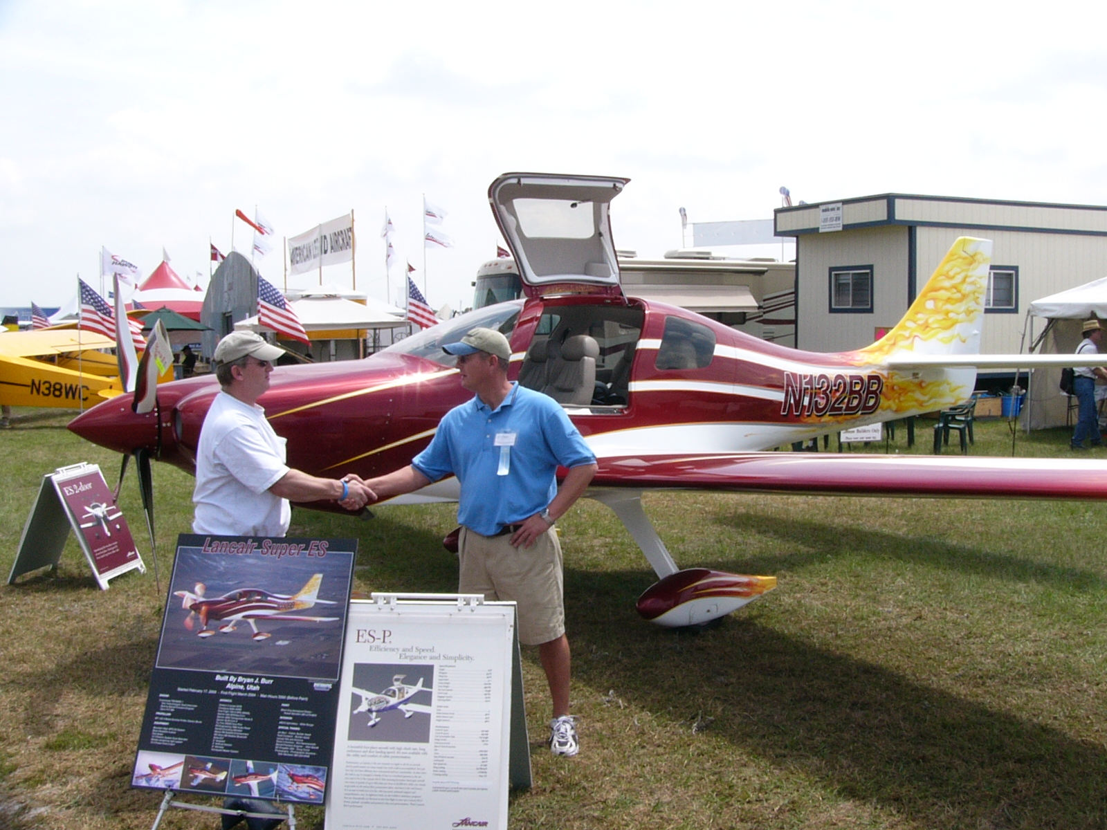 A Lancair ES at Sun 'n Fun, Lakeland, Florida, United States